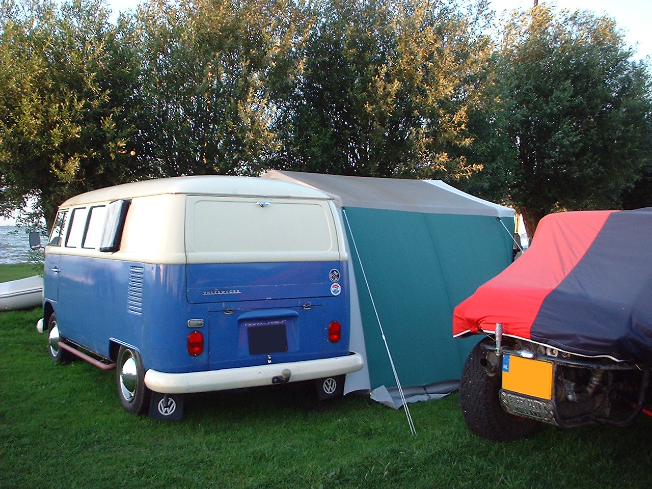 VW T1 Camper, self photographed 2001 in Edam, Netherlands.